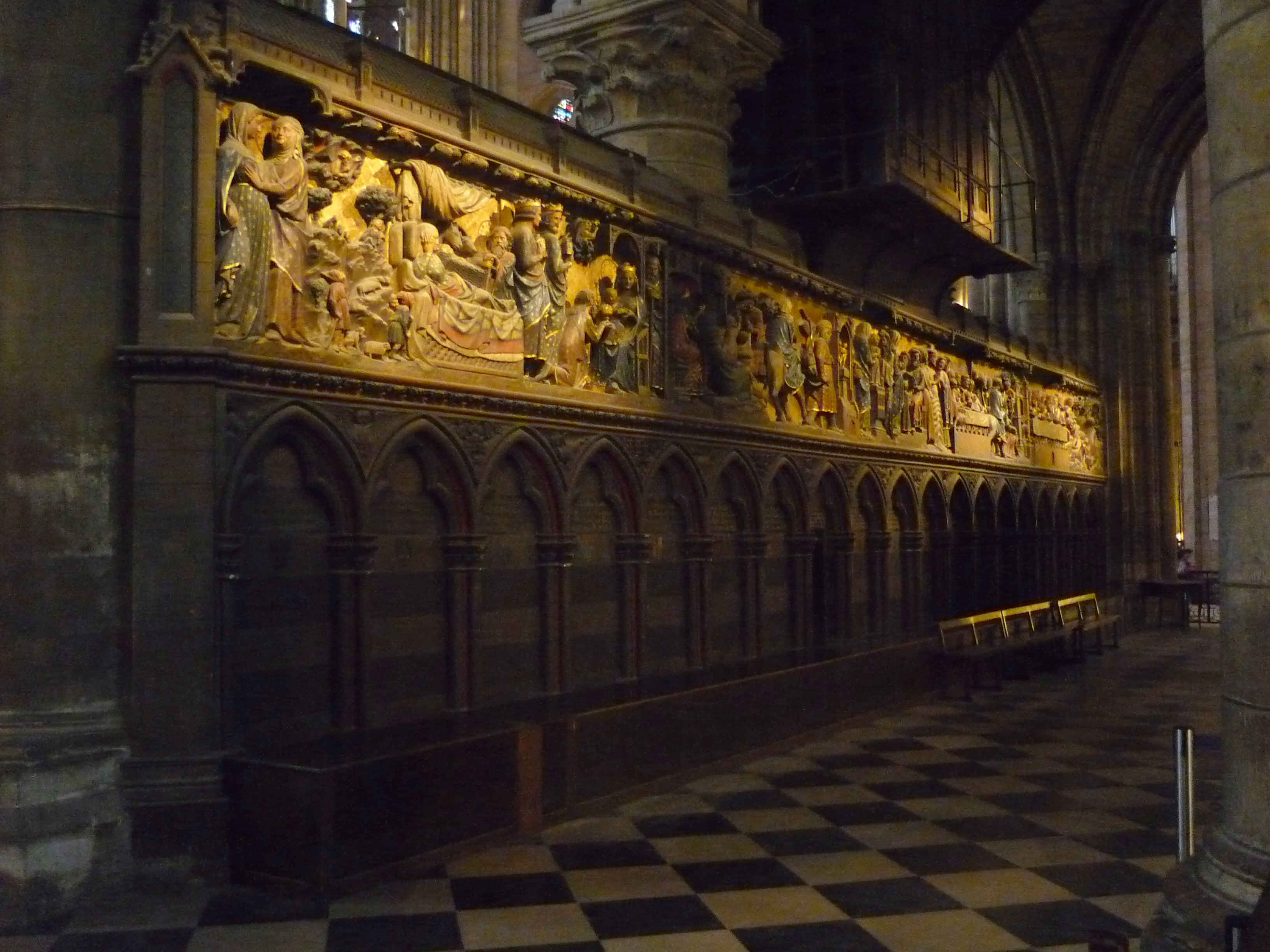 Back of the choir stalls with the relief (sculpture) above them, Notre Dame, Paris